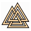 Black and orange version of the Valknut (in "Borromean" form), a sacred symbol of ancient origins. In modern times it is used mainly by Asatruar and Vanatruar Heathen denominations.